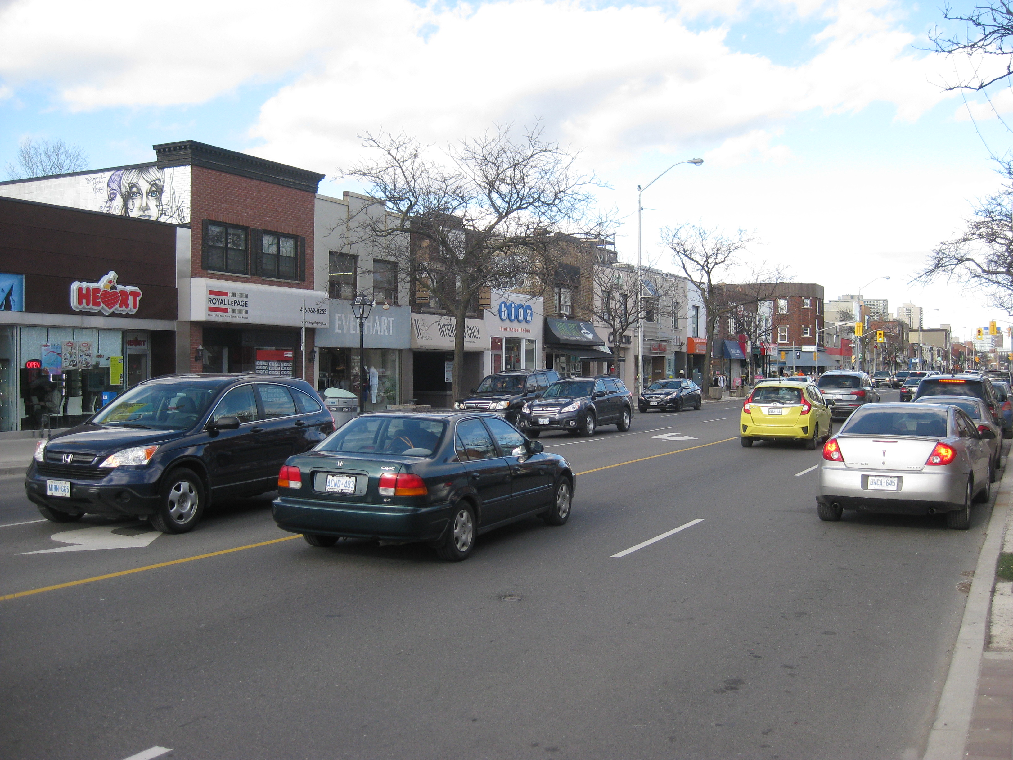 Looking east on Bloor Street in Toronto, Canada.